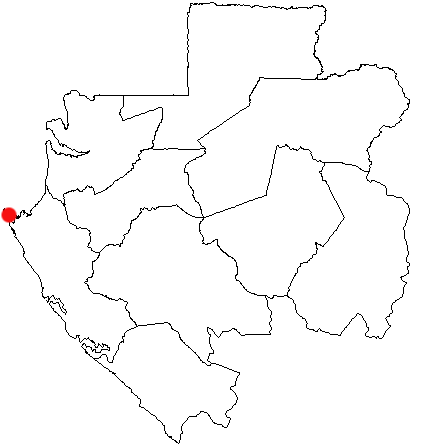 Port-Gentil, Gabon Location Map; created with the GIMP. Made by User:Acntx.